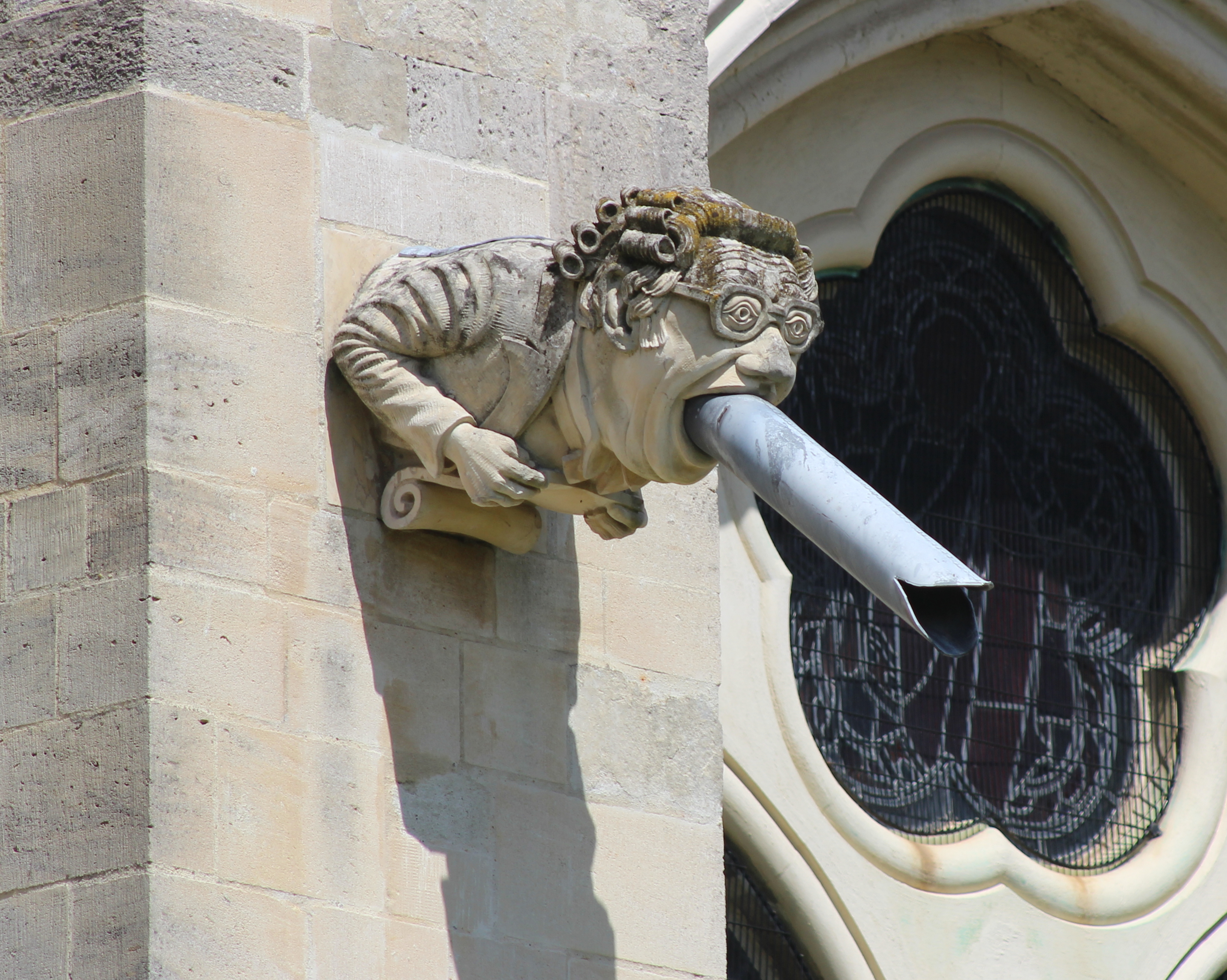 Gargoyle, located on the south transept of Chichester Cathedral, depicting Clifford Hodgetts OBE (born 1934), solicitor (hence the wig) and former registrar to dean and chapter of the cathederal.[1] The pipe in his mouth clearly depicts the primary function of a gargoyle: a means of diverting rainwater from the masonary walls of the building.